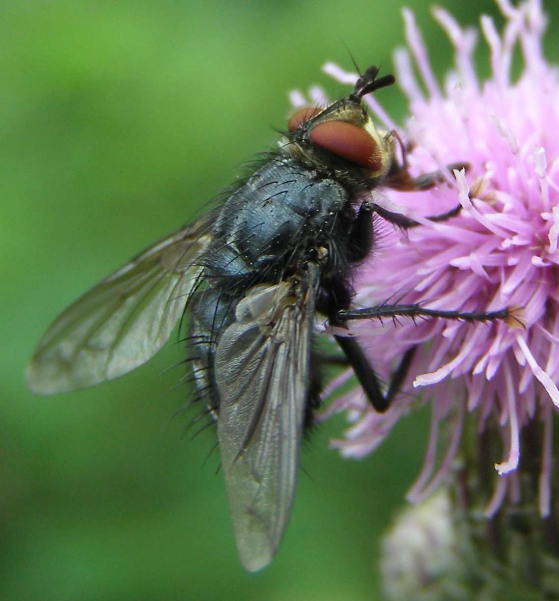 A Tachinid fly of genus Eurithia, probably Eurithia connivens. Identified by Chris Raper and Theo Zeegers.